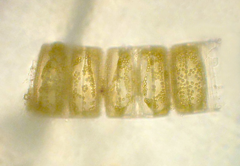 North-West Black Sea, coastal waters, at a depth of 0.5 metre